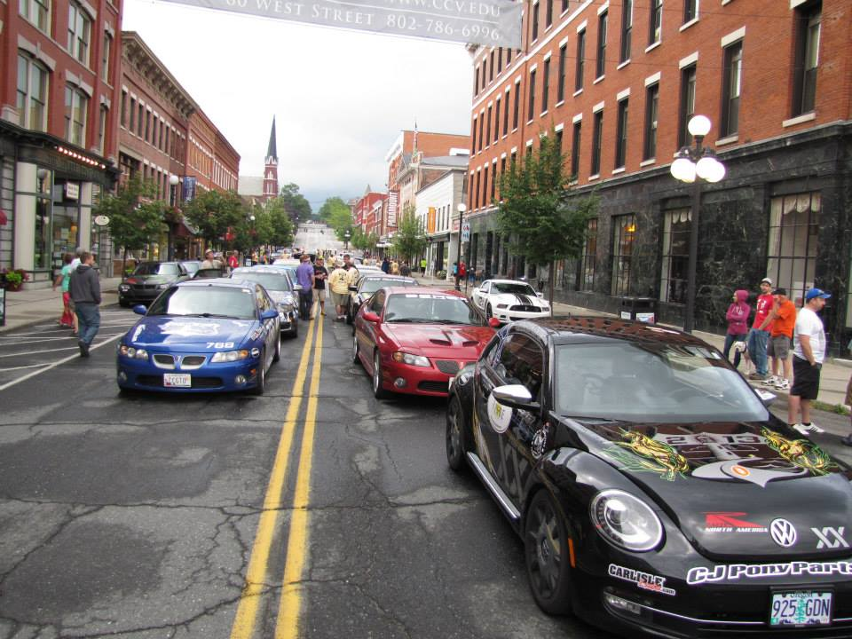 Rally North America Starting Line Day 2